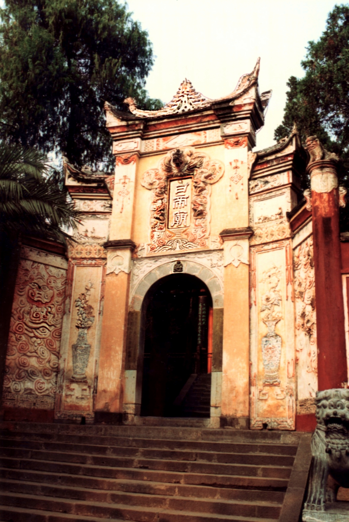 白帝庙 Temple of The White Emperor